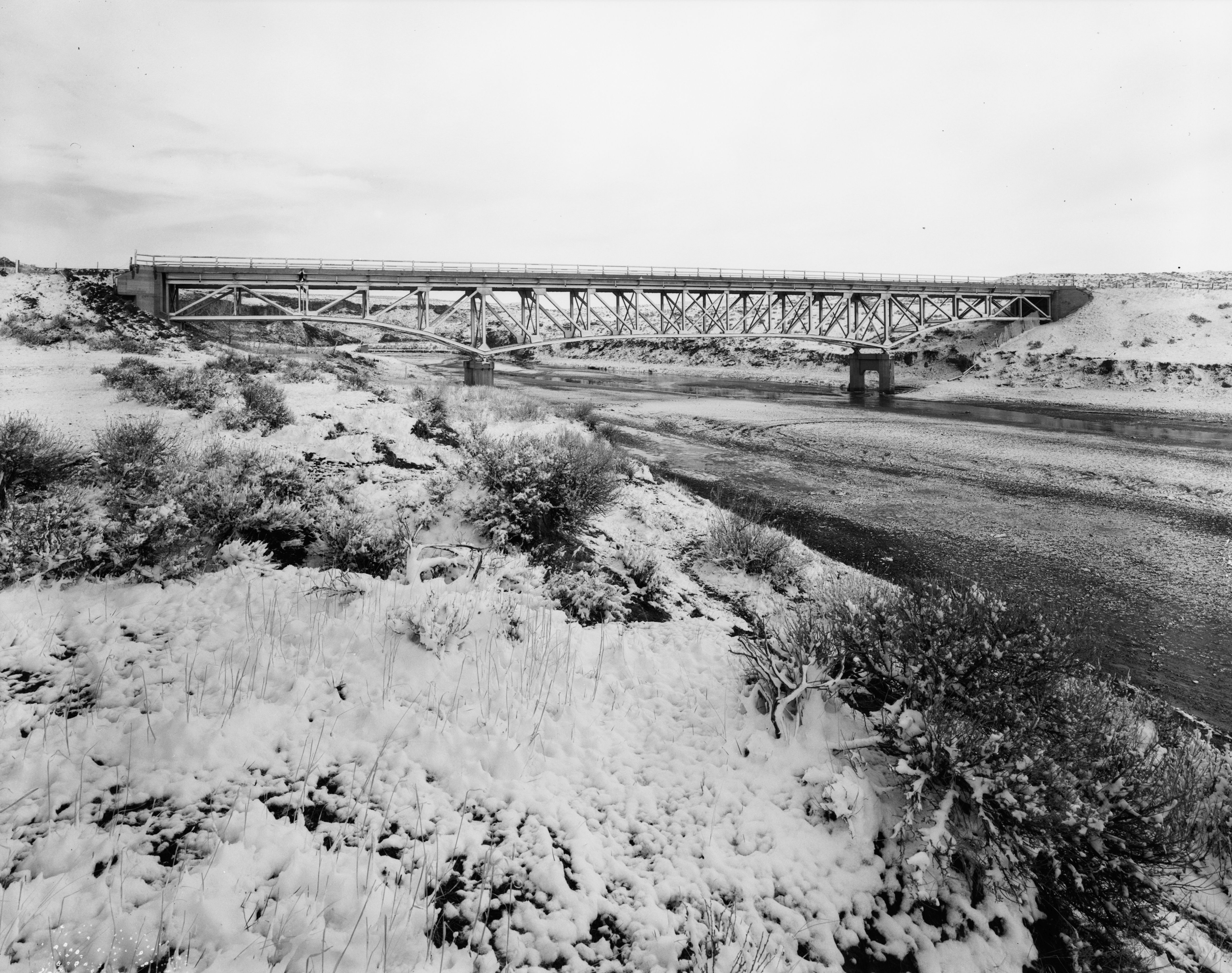 Southern side of the AJX Bridge over South Fork and Powder River, which carries a service road for Interstate 25 (the former U.S. Route 87 roadbed) over the South Fork of the Powder River near Kaycee in Johnson County, Wyoming, United States. Built in 1931, this Pratt deck truss bridge is the only large cantilevered bridge in the state. It is listed on the National Register of Historic Places.